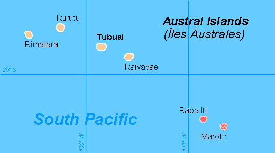 Location of the commune of Rapa within Austral Islands